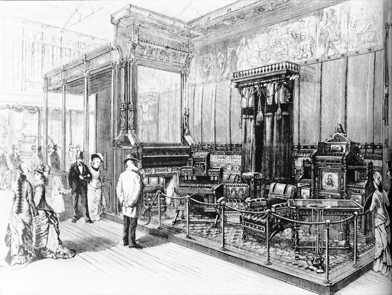 Engraving of the Kimbel & Cabus display at the 1876 Centennial Exposition in Philadelphia, Pennsylvania.